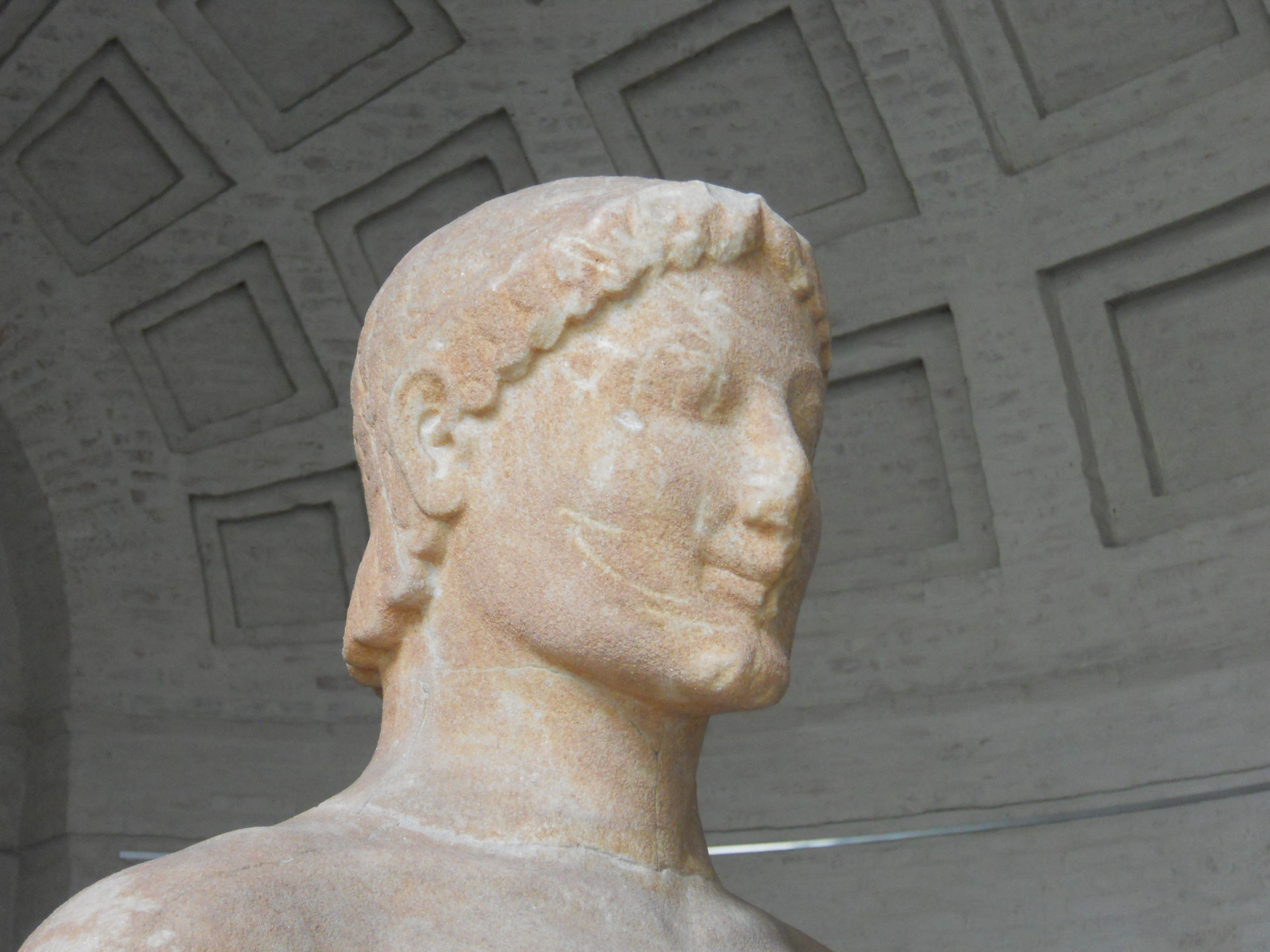 Glyptothek Sculpture